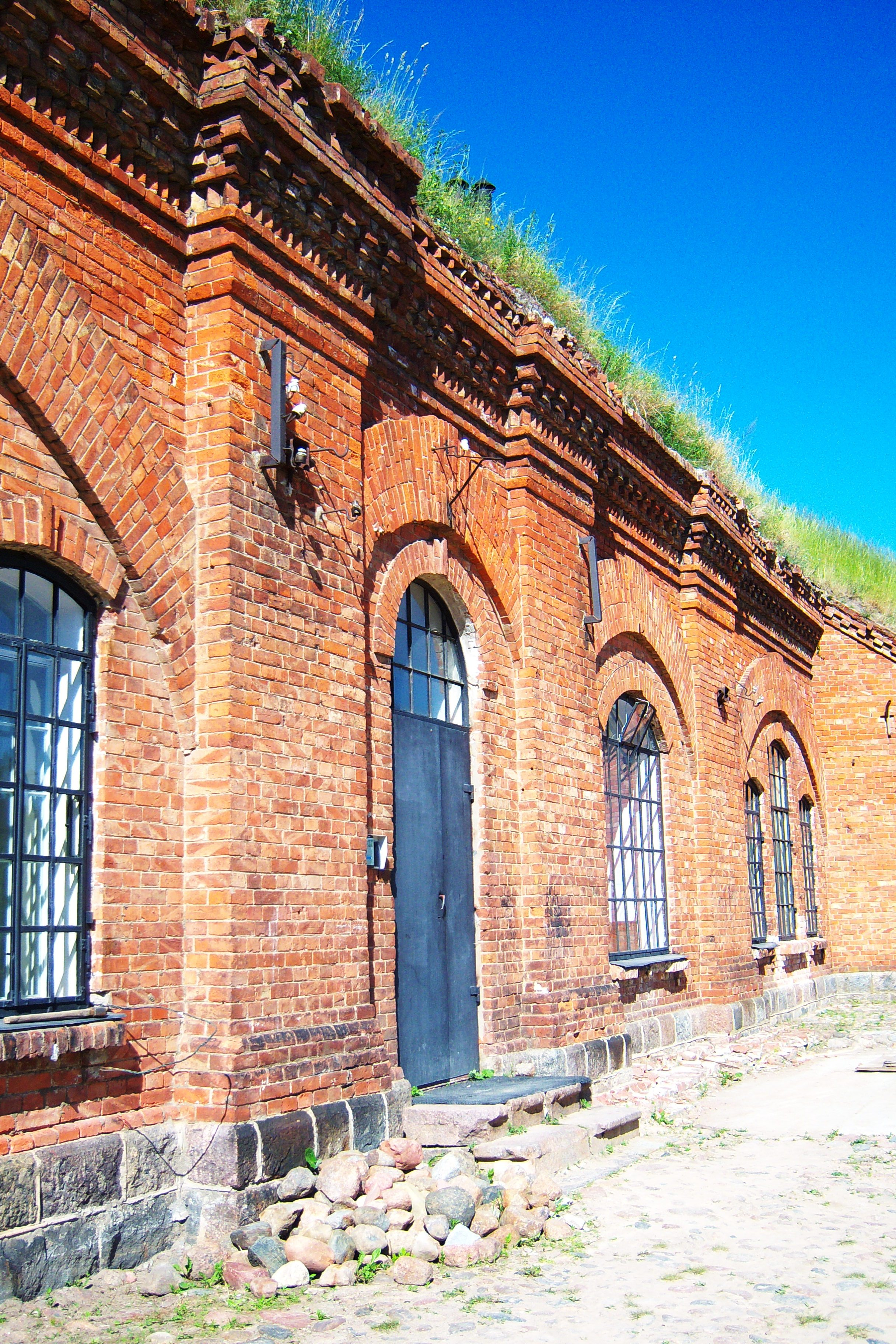 7th Kaunas Fort. Barracks. Lithuania.